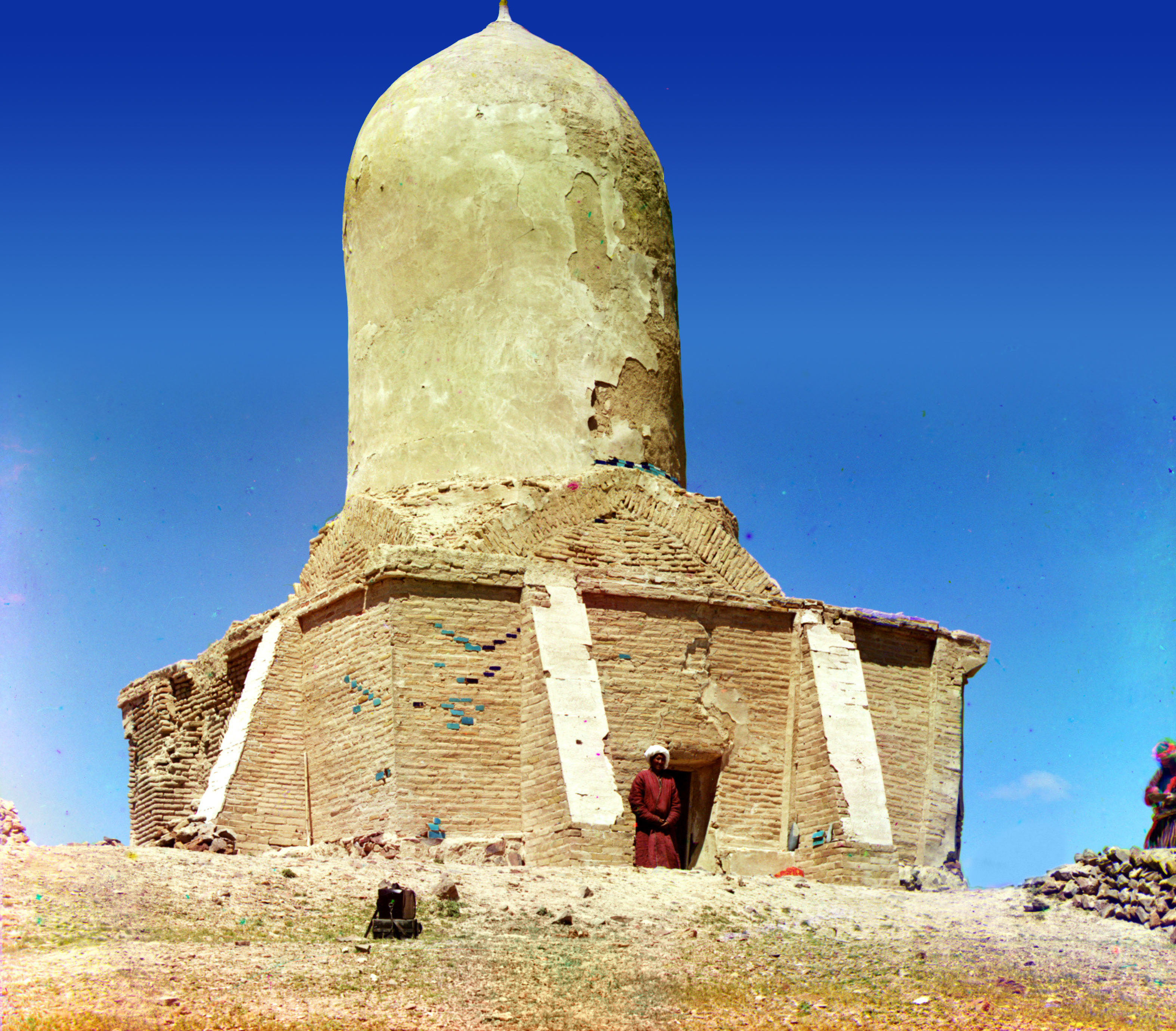 Chapel on Chapan-Ata Mountain, five versts from Samarkand